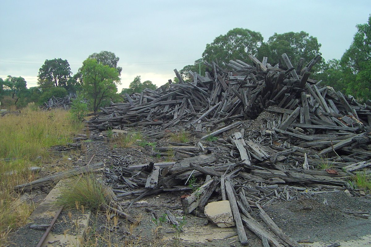 Remnants of the Ropes Creek Railway Line